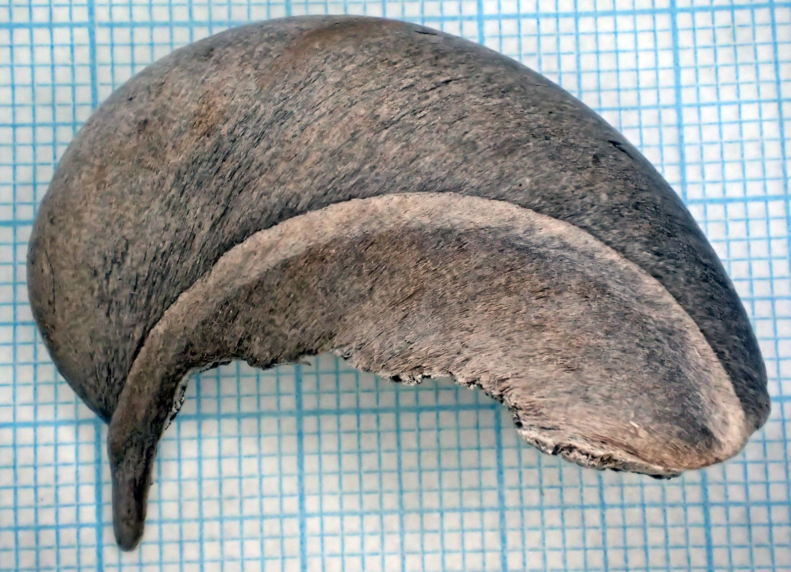 One of the 16 seeds in the fruit of Hura crepitans